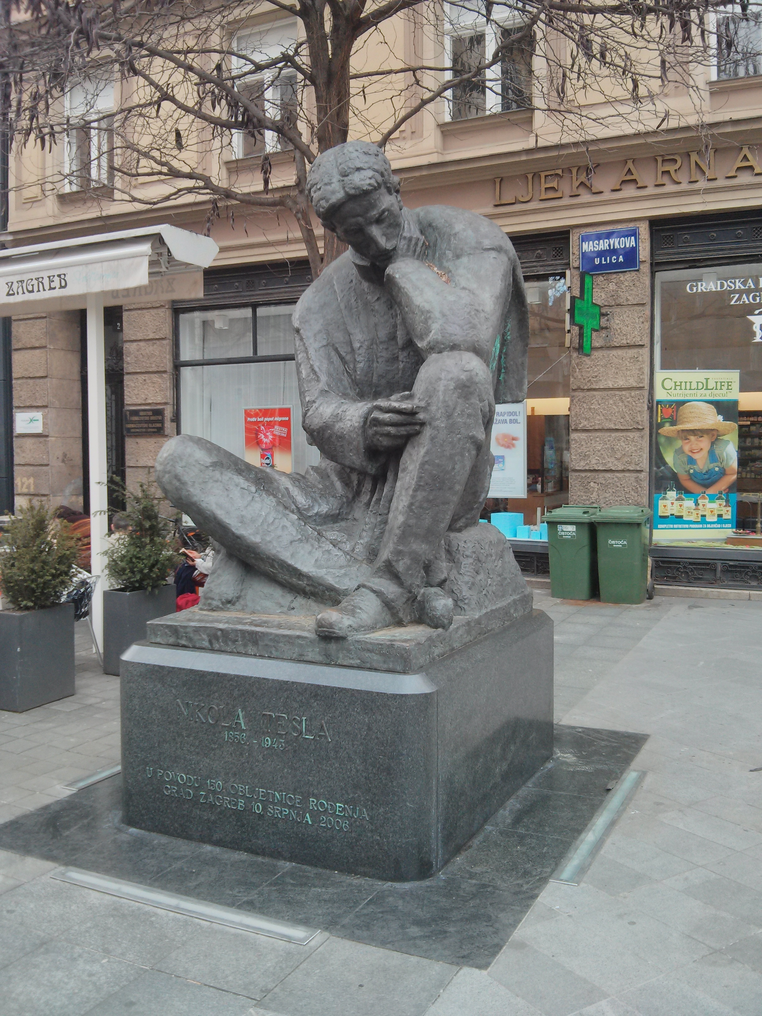 Nikola Tesla monument in Zagreb, Croatia.